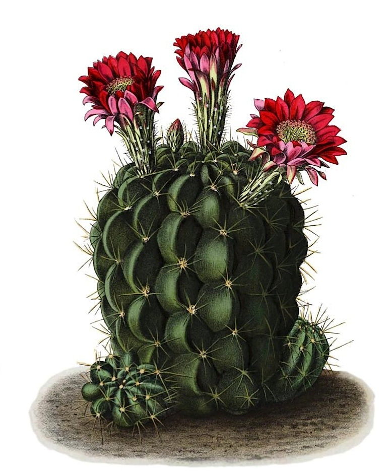 Echinopsis pentlandii